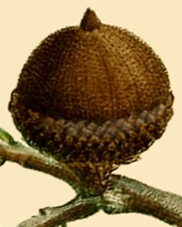 Detail of an acorn from Quercus phellos - Willow Oak, Chêne saule